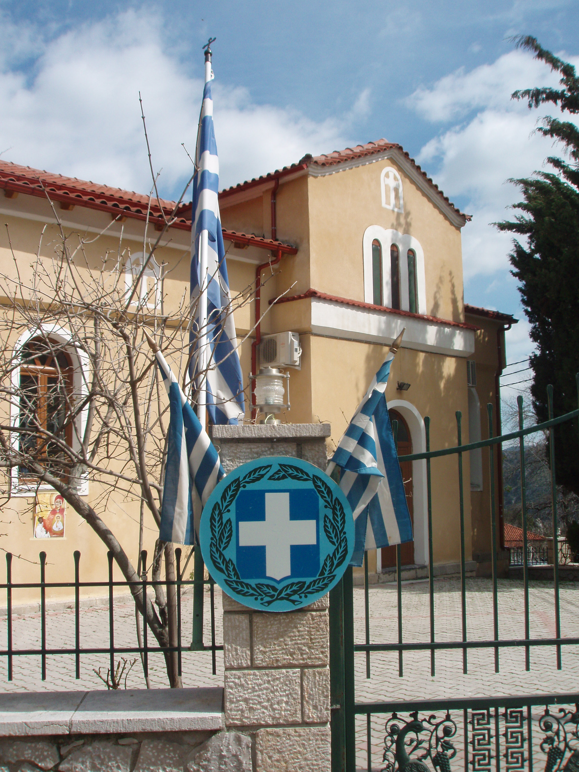 Greek Orthodox Church decorated with Greek flags and national emblem for Independence Day, 25 March